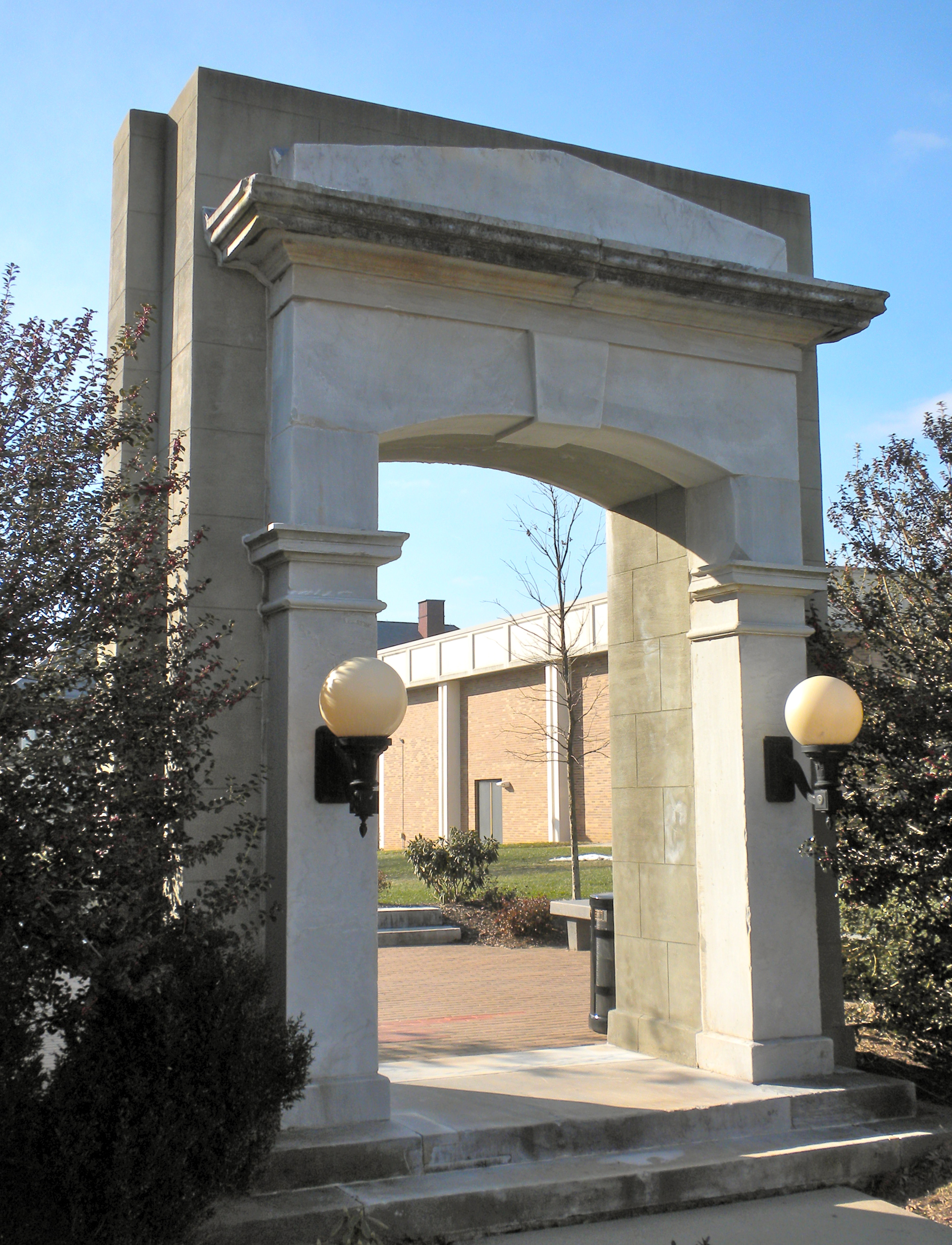 Old entryway to the torn-down Old Main Building at West Chester University in West Chester, PA. re-erected it marks the entryway to the campus's quadrangle.Quadrangle is on the NRHP. I donate this photo to the public domain